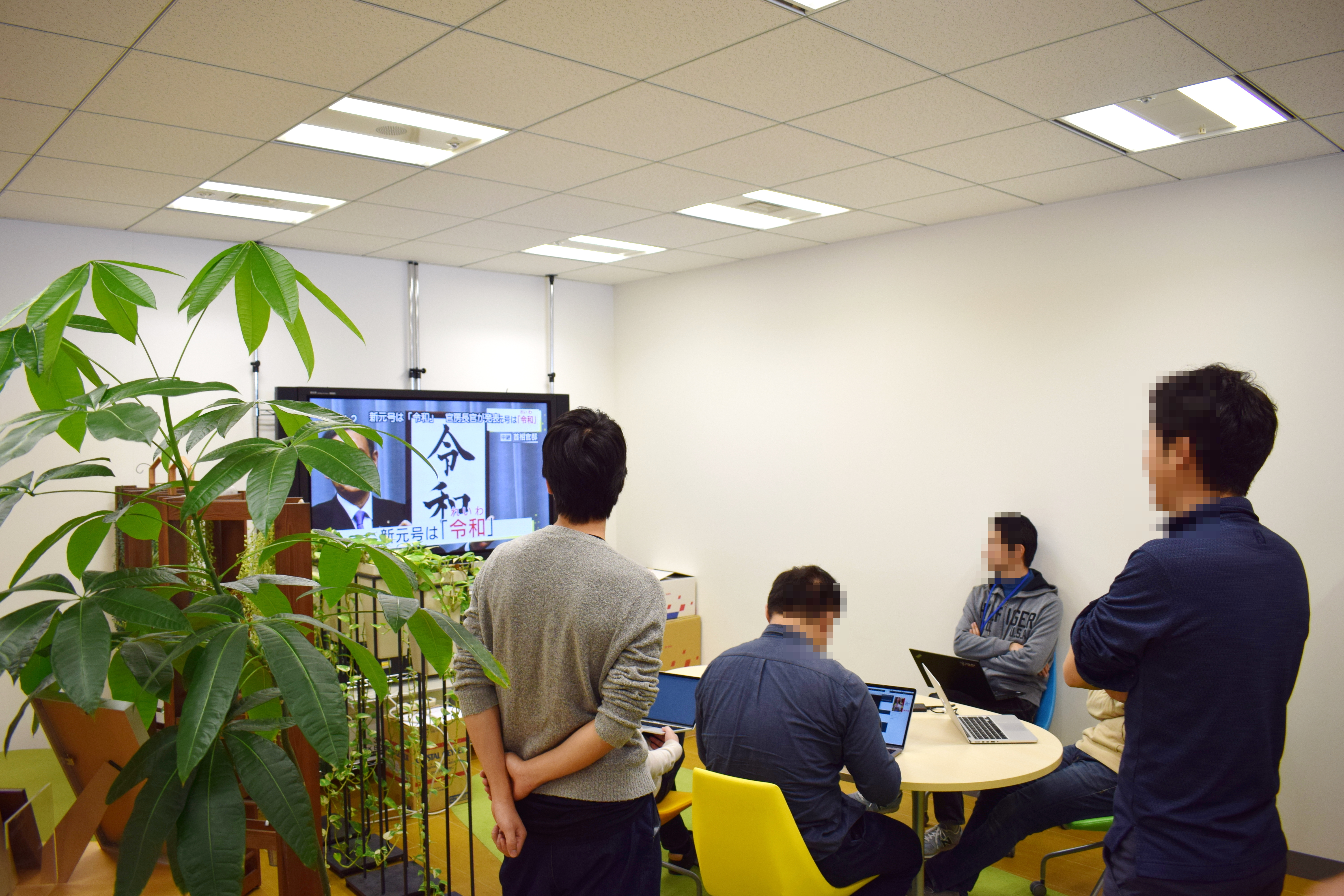 Japanese office workers taking a break to watch the new era name being announced on TV Nikon D5300